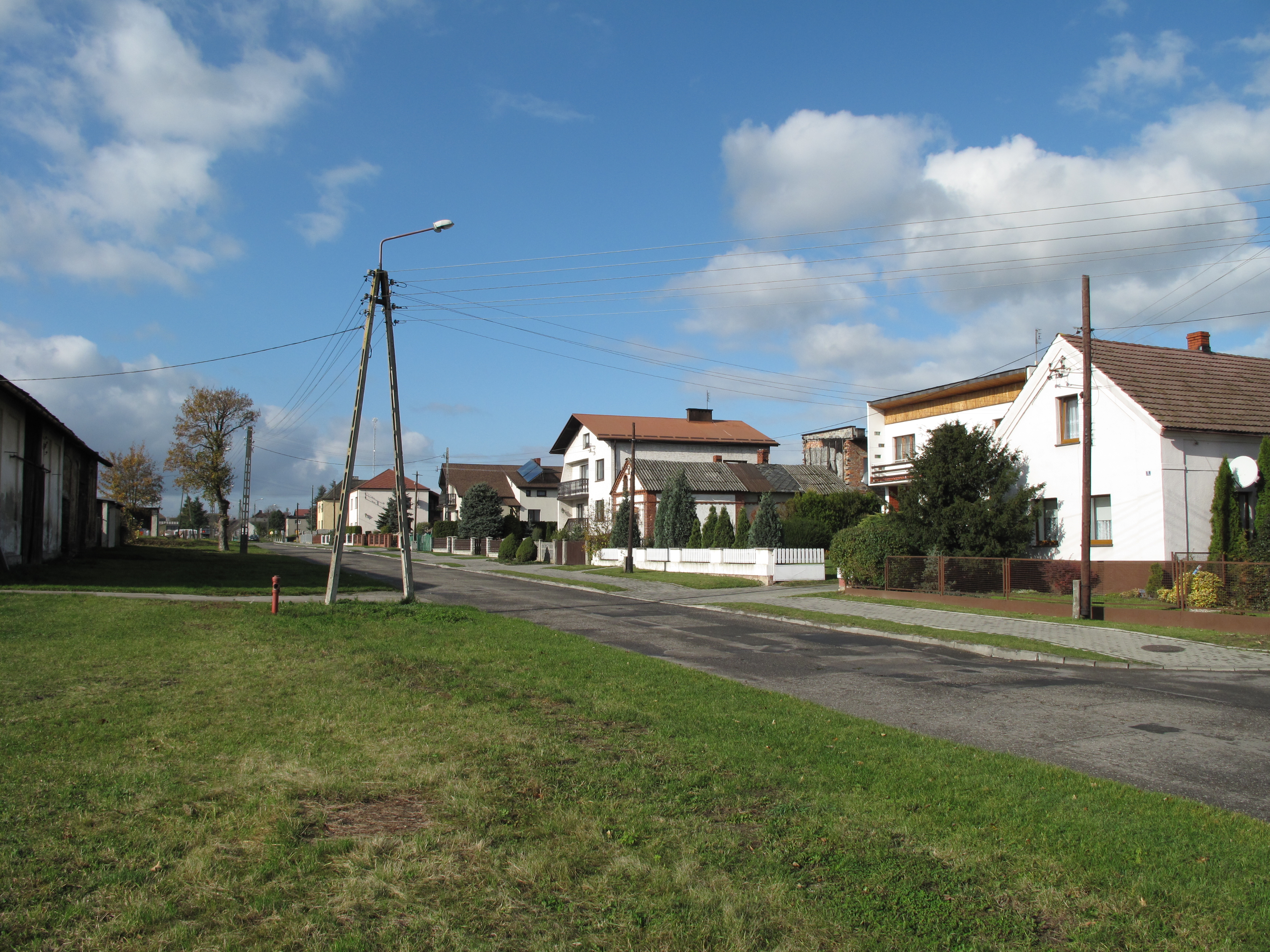 Bieńkowice. Racibórz County, Poland.